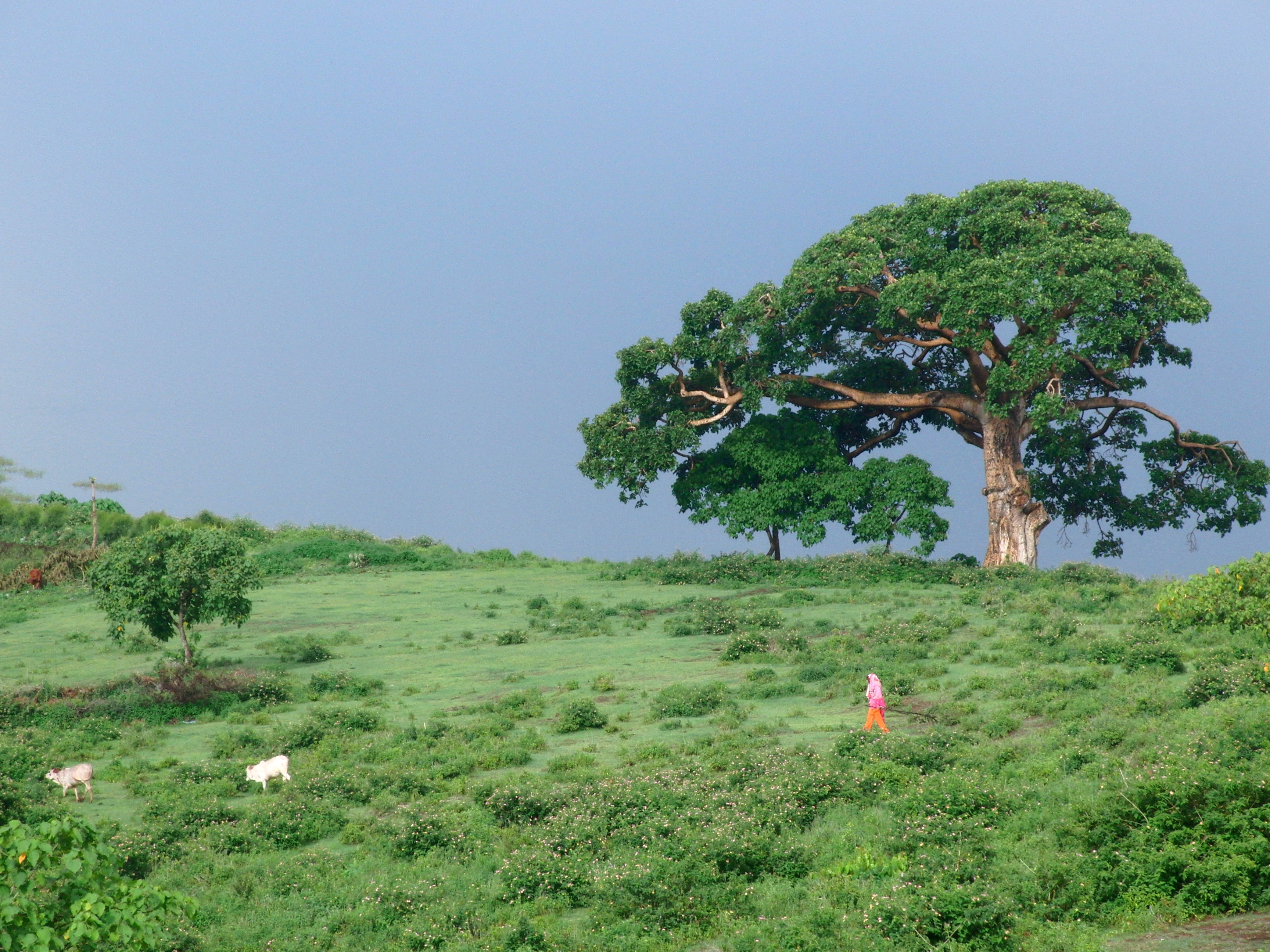 A woman with some livestock on the top of Awasa Hill, South Ethiopia.